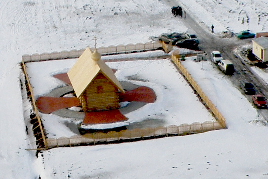 Saint George church. Glinki (Tosno district) near Pavlovsk (road from Pavlovsk to Feodorovskoe). Aerial photograph.